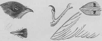 General characterisitics of NZ creeper bill and feet and wings.